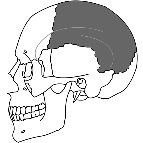 The parietal bone and it's position.